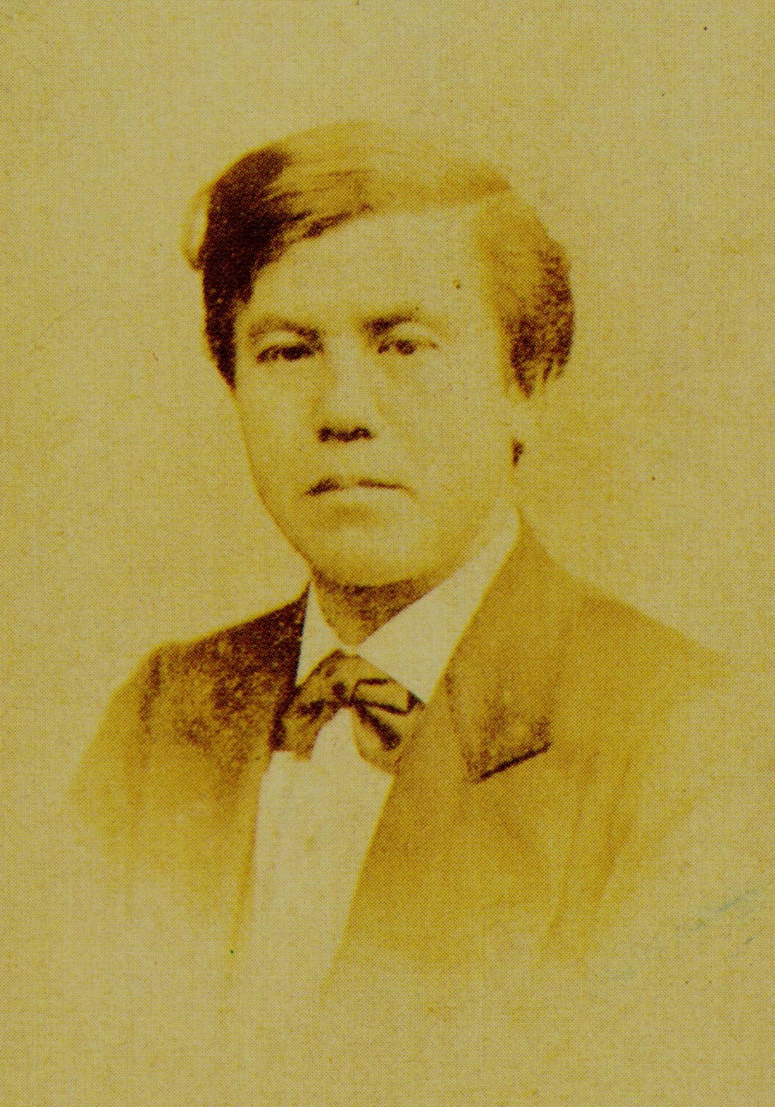 Portrait Kido Takayoshi at London